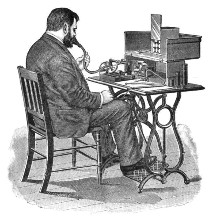 Woodcut of the use of an early wax cylinder phonograph, or gramophone, for dictation. Although the phonograph was first invented by Thomas A. Edison, the source text says this was a machine called the 'G', invented by Alexander Graham Bell, Chichester A. Bell, and Sumner Tainter. The user turns the cylinder by pumping the treadle, and speaks into the mouthpiece. The recording is played back by replacing the mouthpiece with the 'stethoscope' type earphones lying on the desk. Extra wax cylinders are seen on the desk. Alterations to image: removed caption, which read: "The Gramophone receiving a dictation".